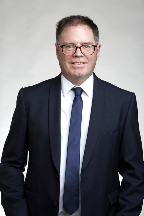 Peter William O'Hearn is a Research Scientist at Facebook and a Professor of Computer Science at University College London Attribution: The Royal Society